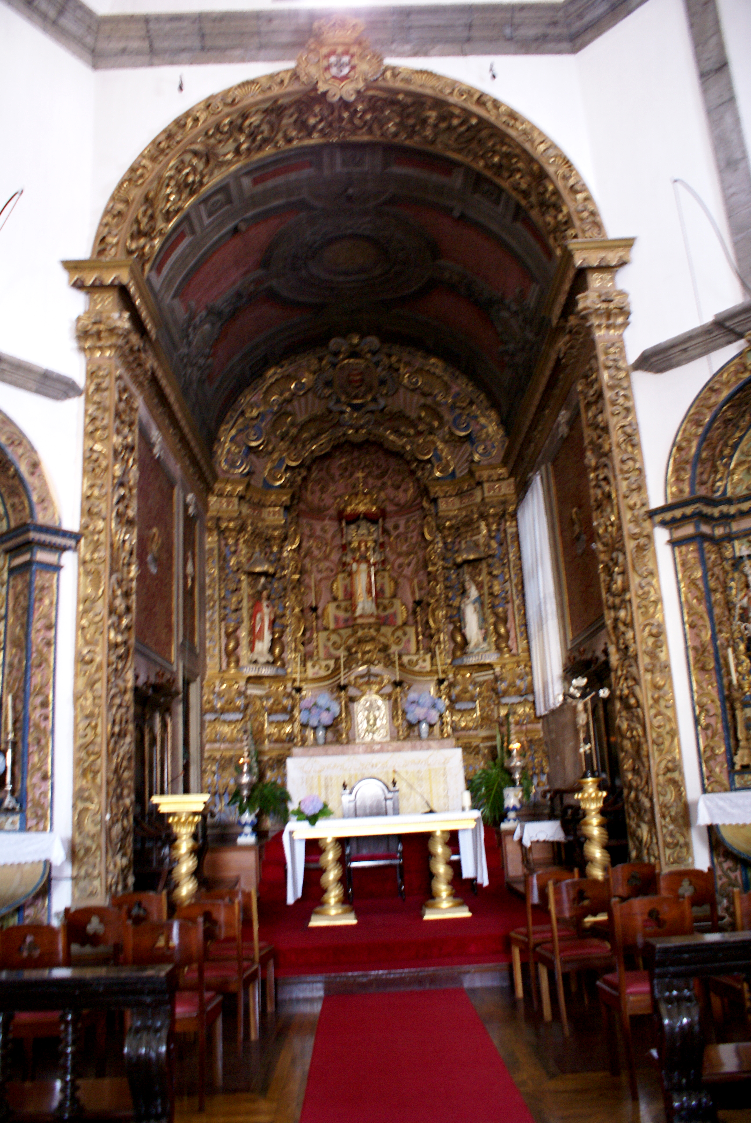 Main alter of the Church of São Pedro, São Pedro, Vila Franca do Campo, São Miguel (Azores), Portugal